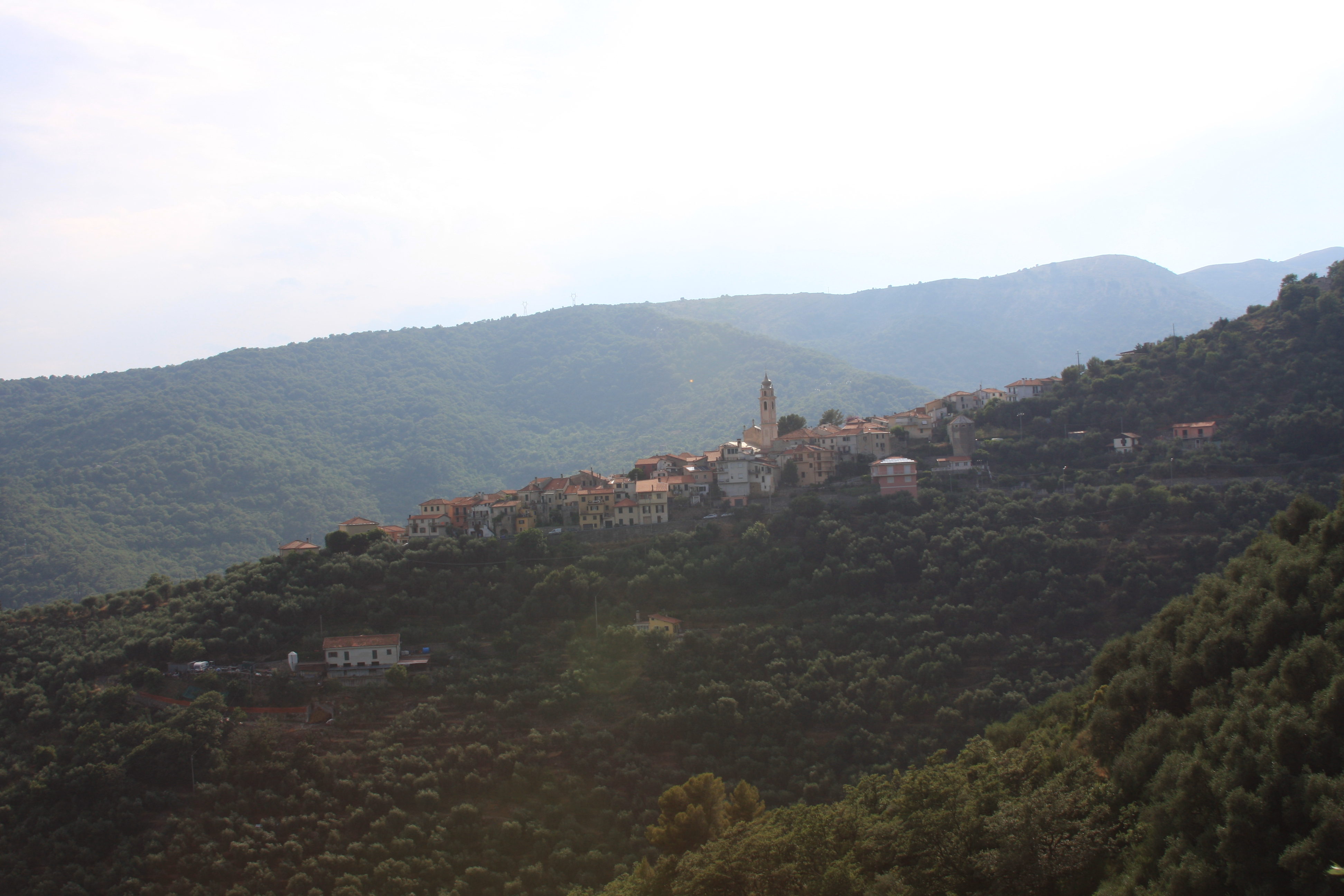 View of the town of Villa Faraldi (Liguria IM, Italy), from Tovetto.